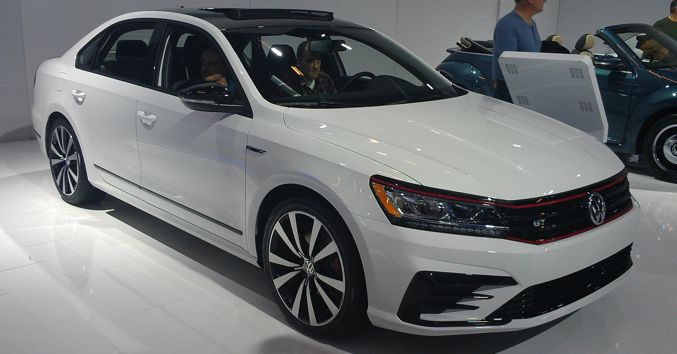 2018 Volkswagen Passat GT photographed in Montréal, Québec, Canada inside the Montréal International Auto Show.